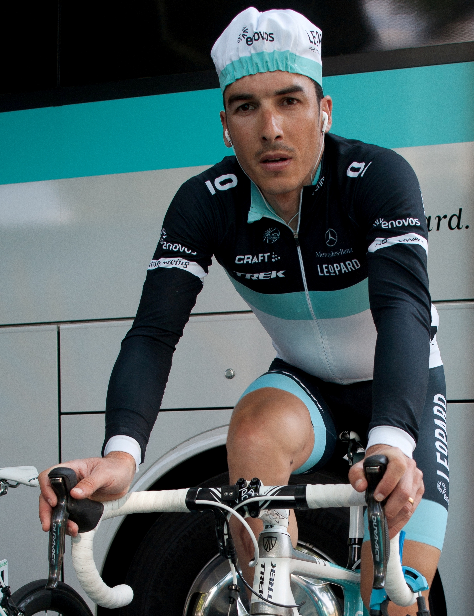 Bruno Pires before Prologue in 2011 Tour de Romandie